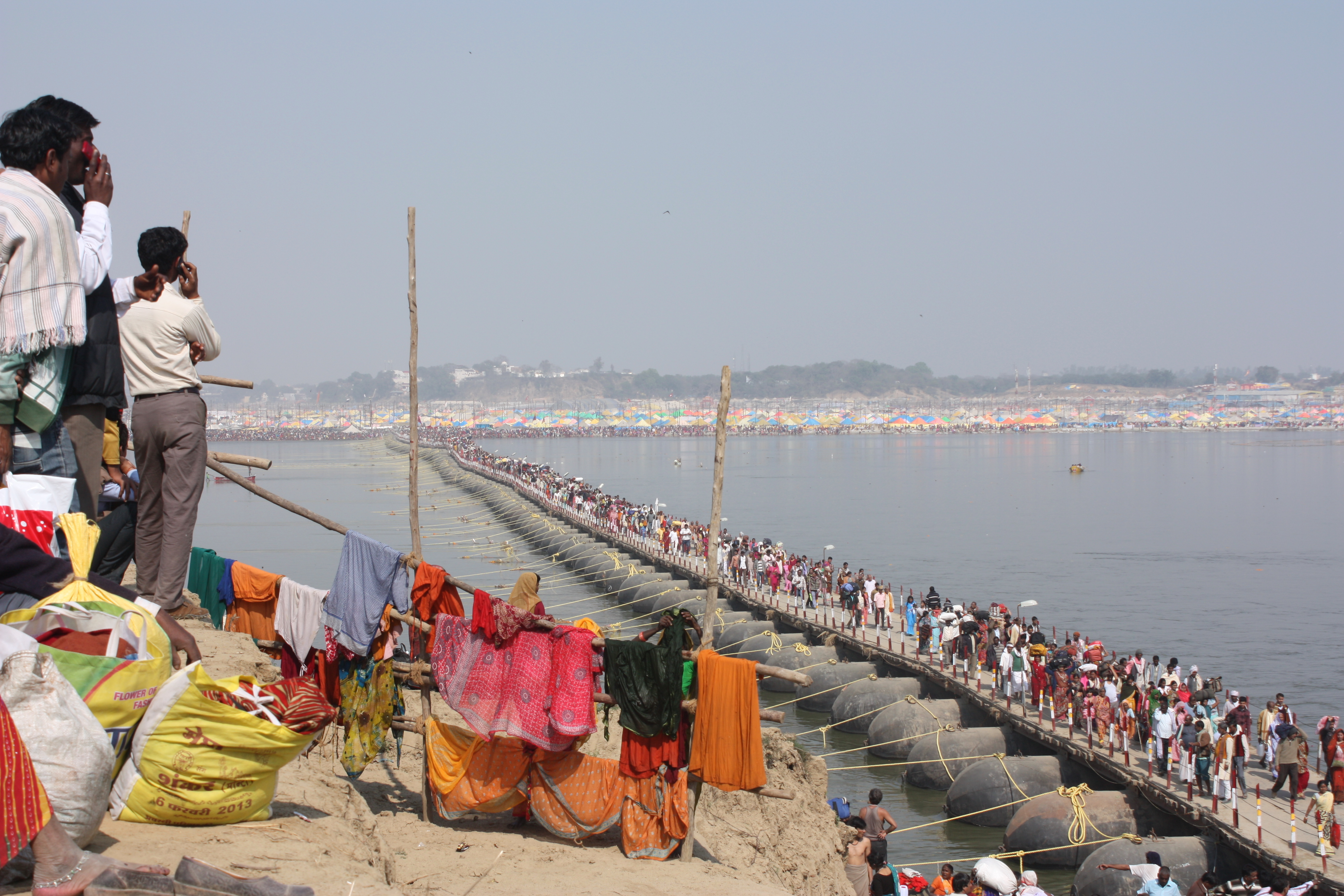 Kumbh Mela 2013 by shak.on